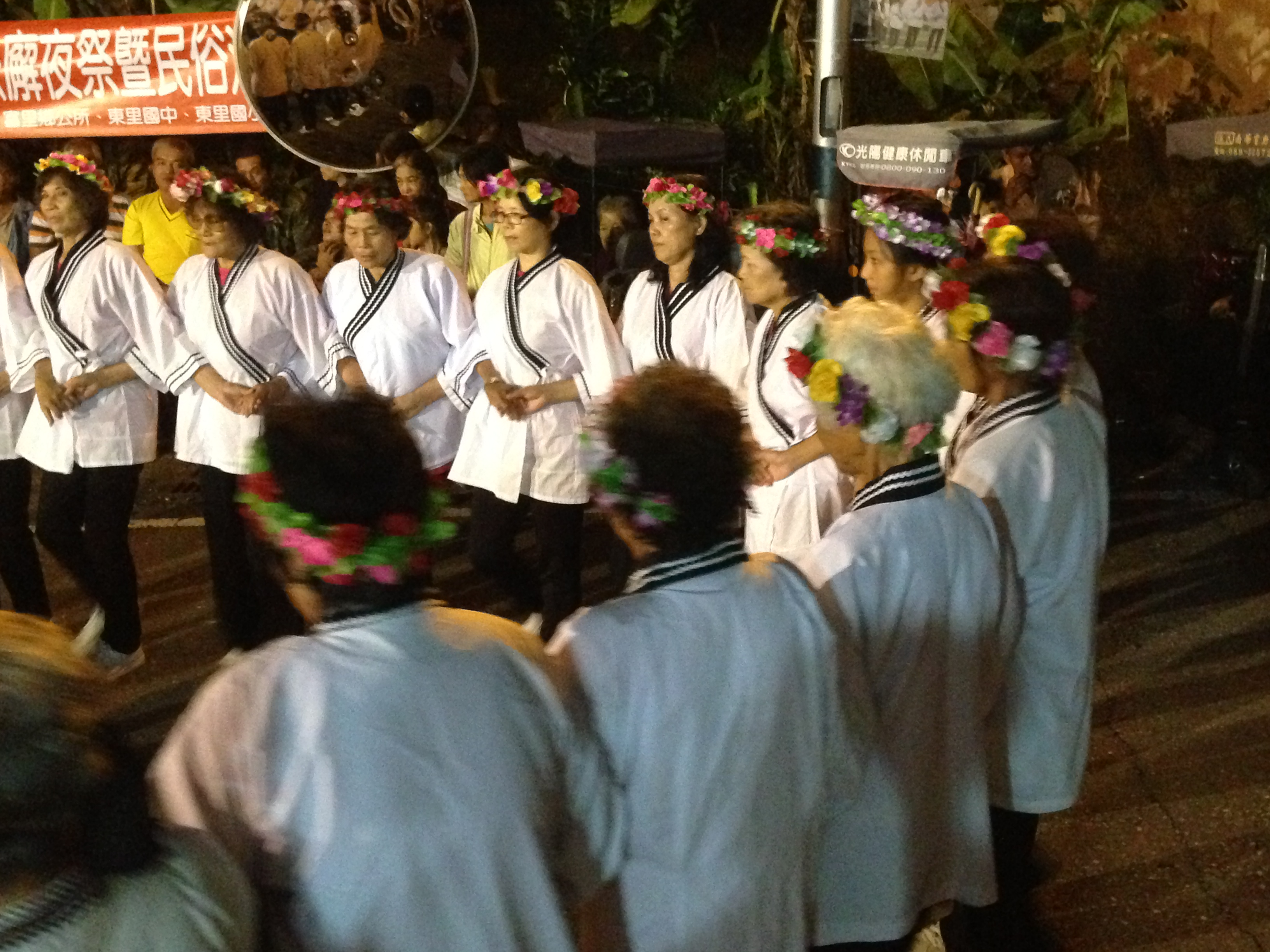 The Night Ceremony of indigenous Taivoan people in Dazhuang, Hualian.